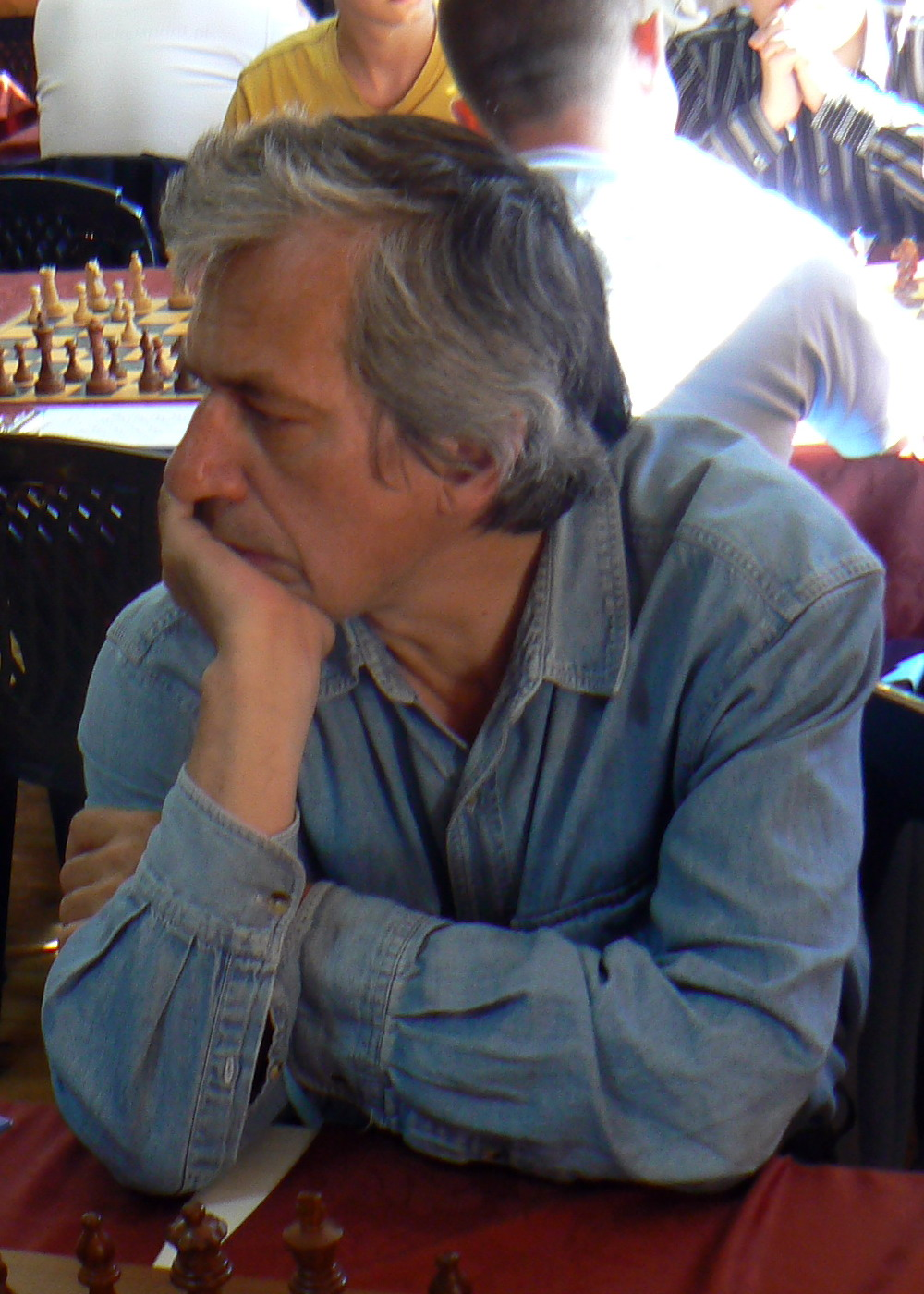 IM Franciszek Borkowski (Poland), Międzyzdroje 2009